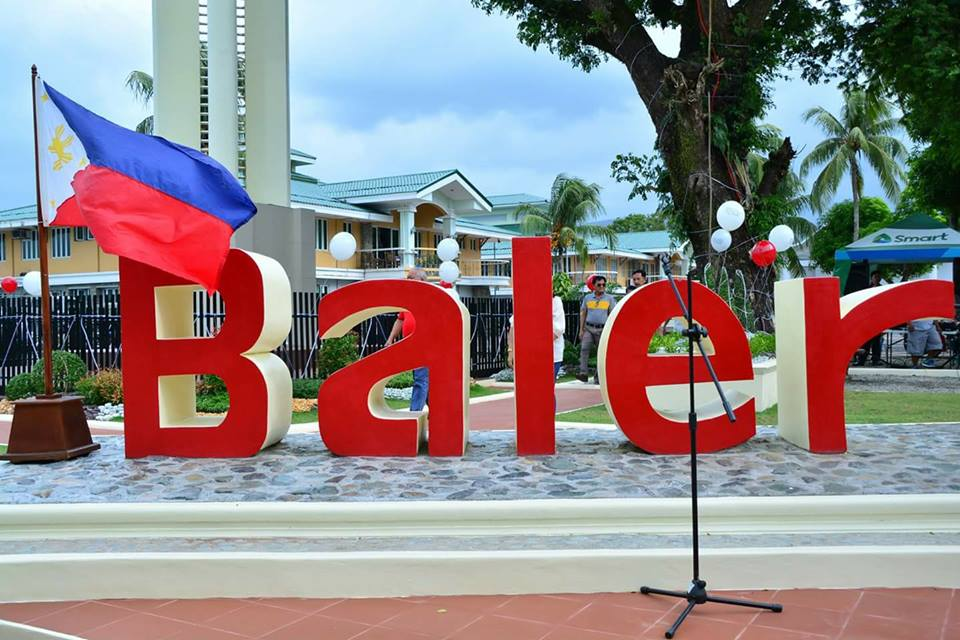 Baler Aurora